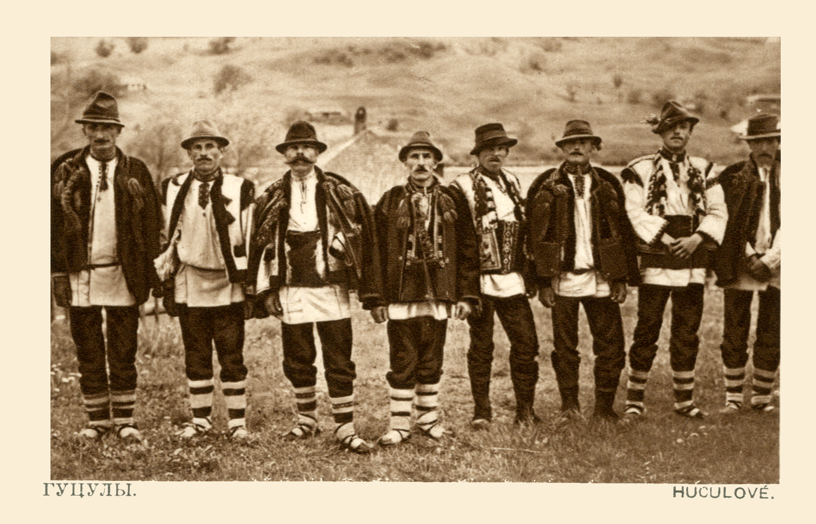 This image is part of an album probably published in about 1920 that contains 20 photographs of scenes in Carpathian Ruthenia, a mountainous region, most of which was part of the Austria-Hungary before World War I, but which became part of the new Czechoslovak state in 1919. Today the largest portion of it forms Zakarpattia Oblast in western Ukraine, with smaller parts in Slovakia and Poland. This image shows a group of Hutsul men. The Hutsuls are an ethnic and cultural group who speak a dialect of Ukrainian, influenced by Polish. They have lived in Ruthenian Carpathia for centuries. Men traditionally wear a blouse with dark embroidery and a stand-up collar, fastened over the trousers usually by a woven woolen belt but sometimes by a broad red-leather belt with several buckles. The men’s hats have braided colored cords. They wear high leather boots or thick woolen oversocks and sandals. Clothing and dress; Ethnic costume; Group portraits; Hutsuls; Men; Portraits